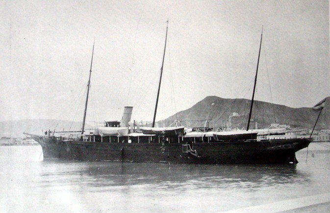 Ludwig Salvator's ship Nixe II. License: Picture taken before 1920 and not protected any more. Scanned and image processed by Anton (2005)